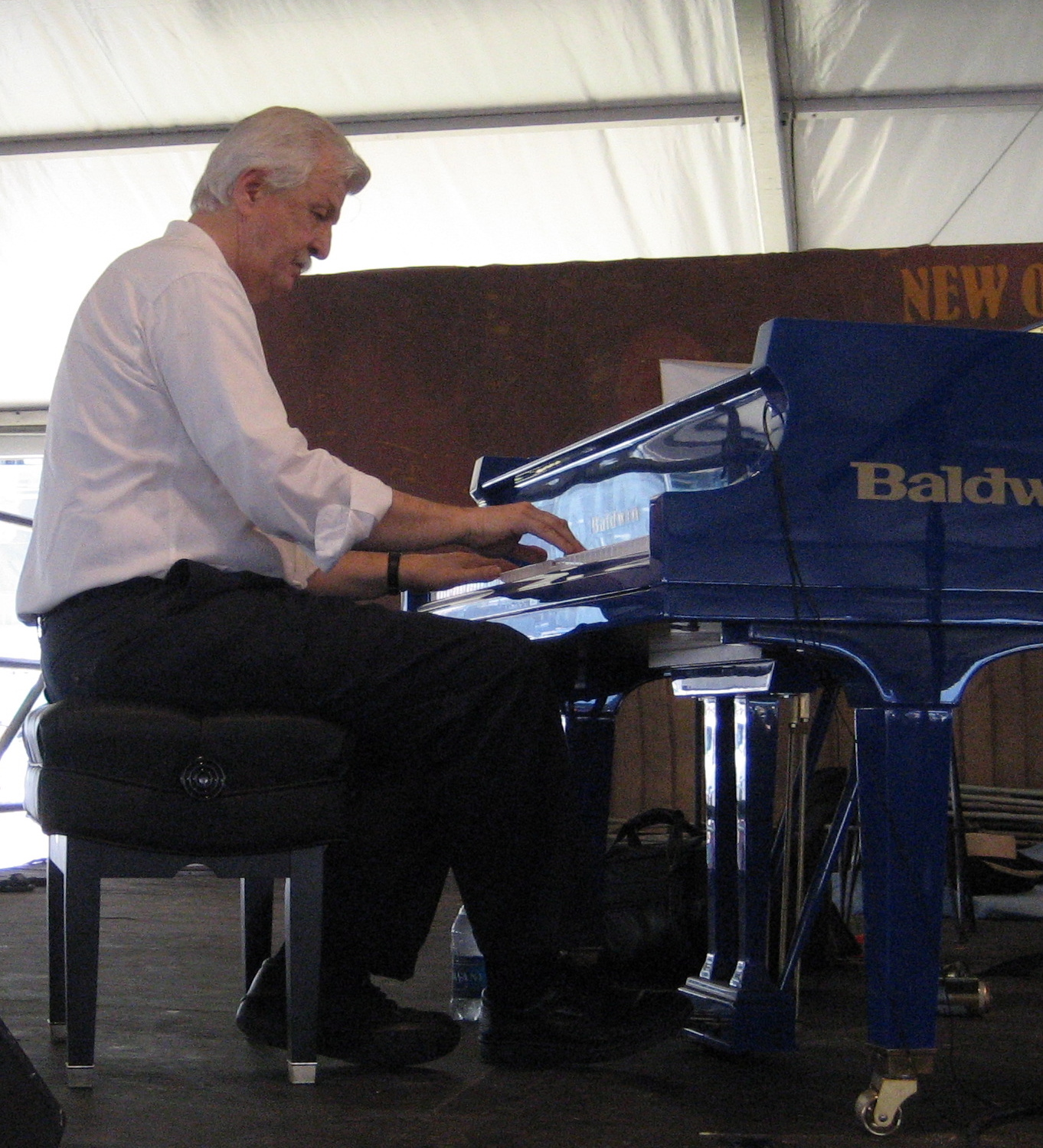 Pianist Butch Thompson, New Orleans Jazz & Heritage Festival 2007 (On "Economy Hall" stage with Clive Wilson's New Orleans Serenaders)